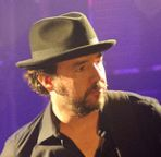 Pat Dahlheimer playing with The Gracious Few